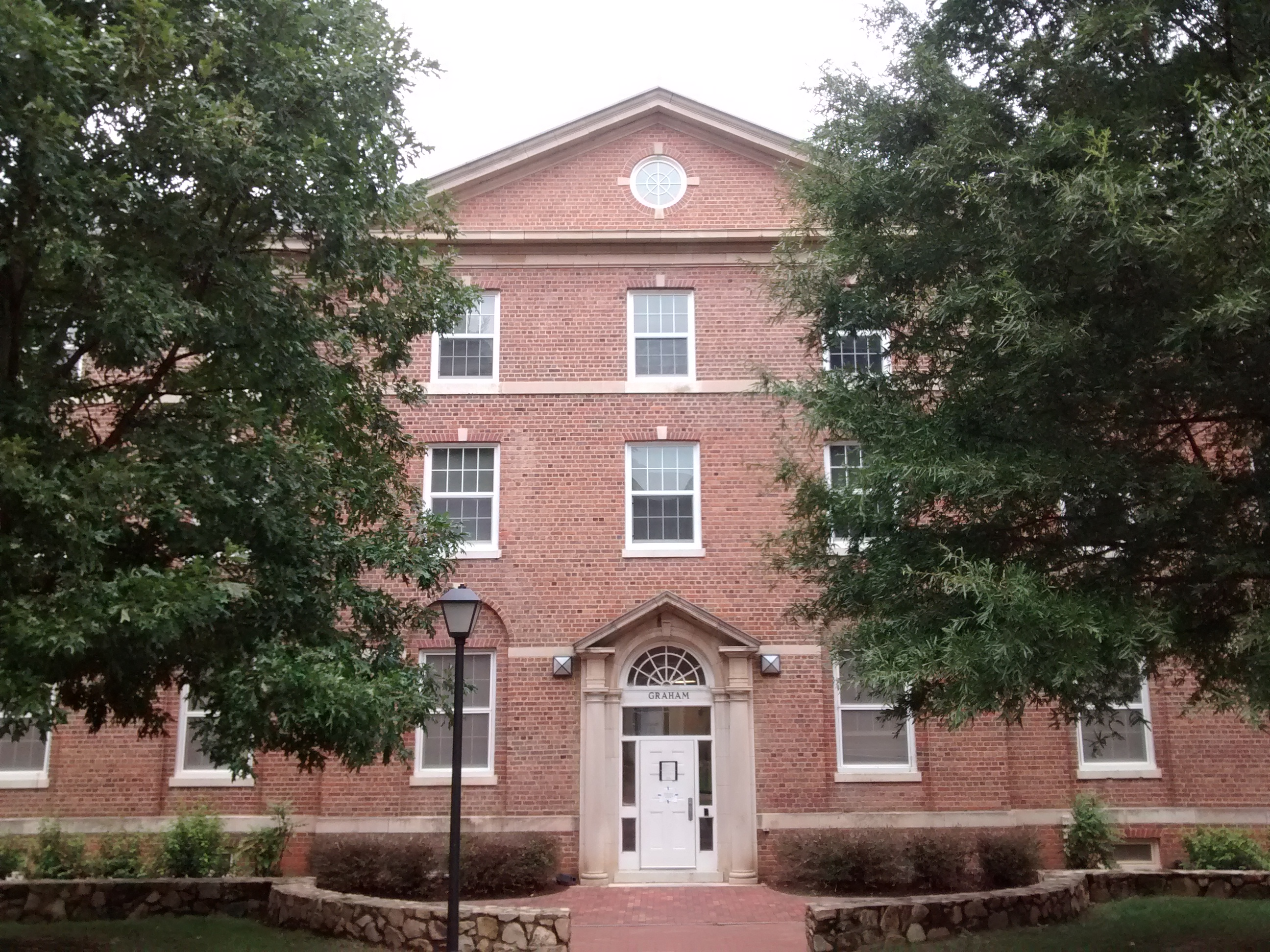 Graham Residence Hall at the University of North Carolina at Chapel Hill.